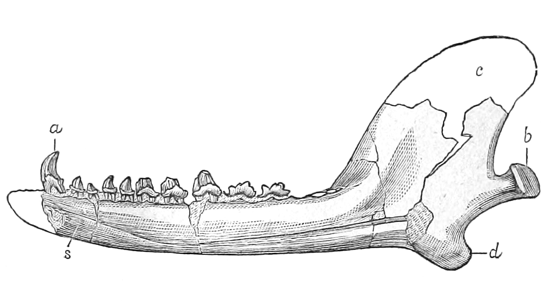 PLATE IX. lower jaw of Docodon striatus, Marsh; inner view. a, canine ; b, condyle ; c, coronoid process ; d, angle ; f, dental foramen ; g, mylohyoid groove ; s, symphyseal surface.